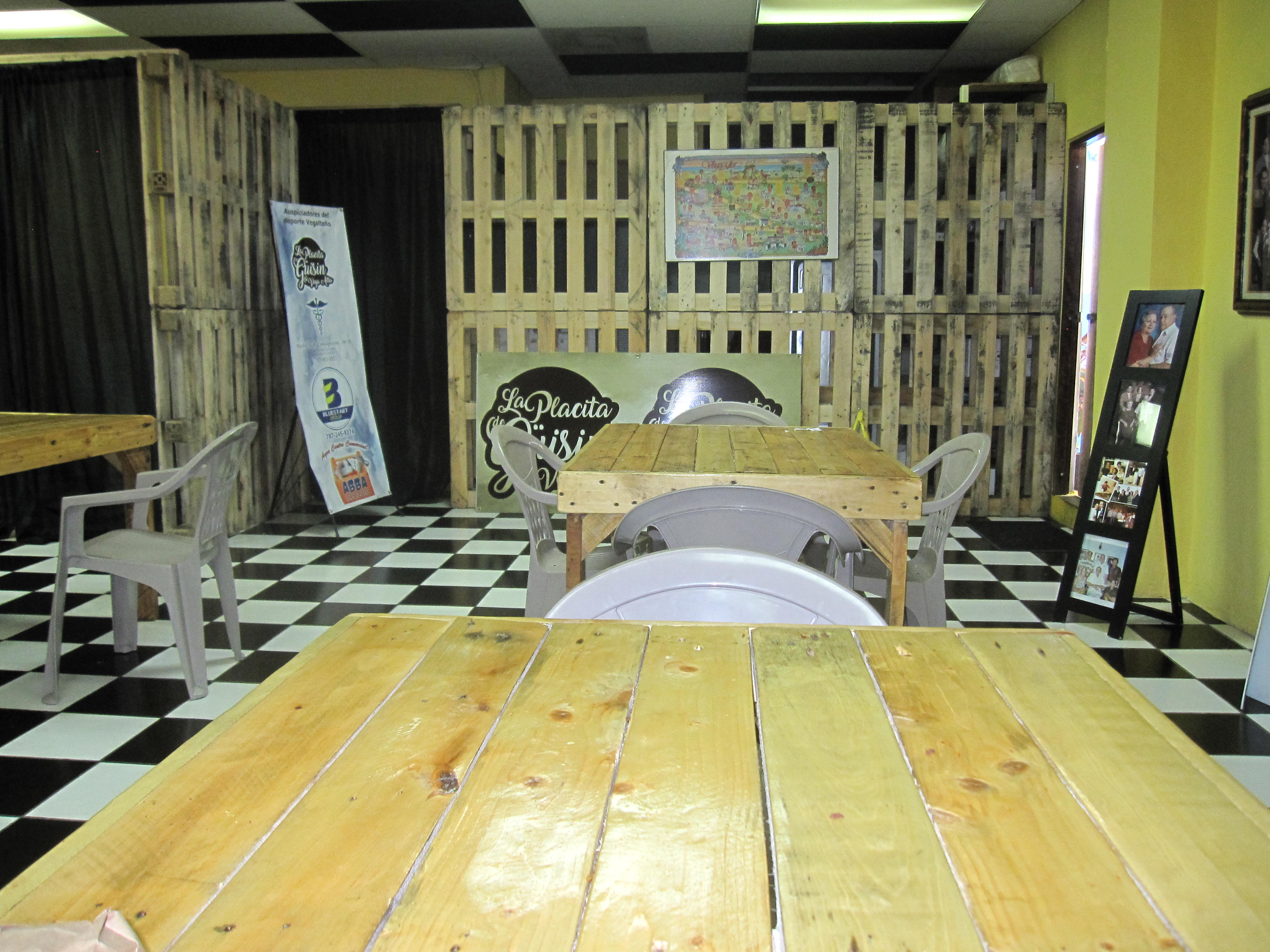 Lin-Manuel Miranda and Hamilton (Broadway musical) "theme" café in Vega Alta, Puerto Rico